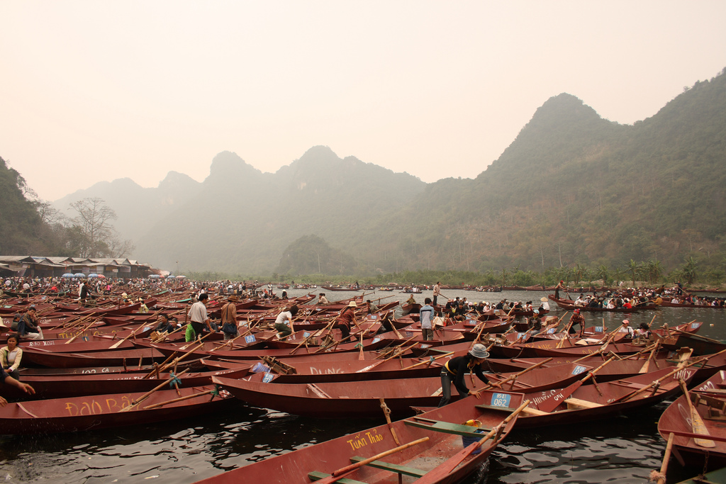 Perfume Pagoda